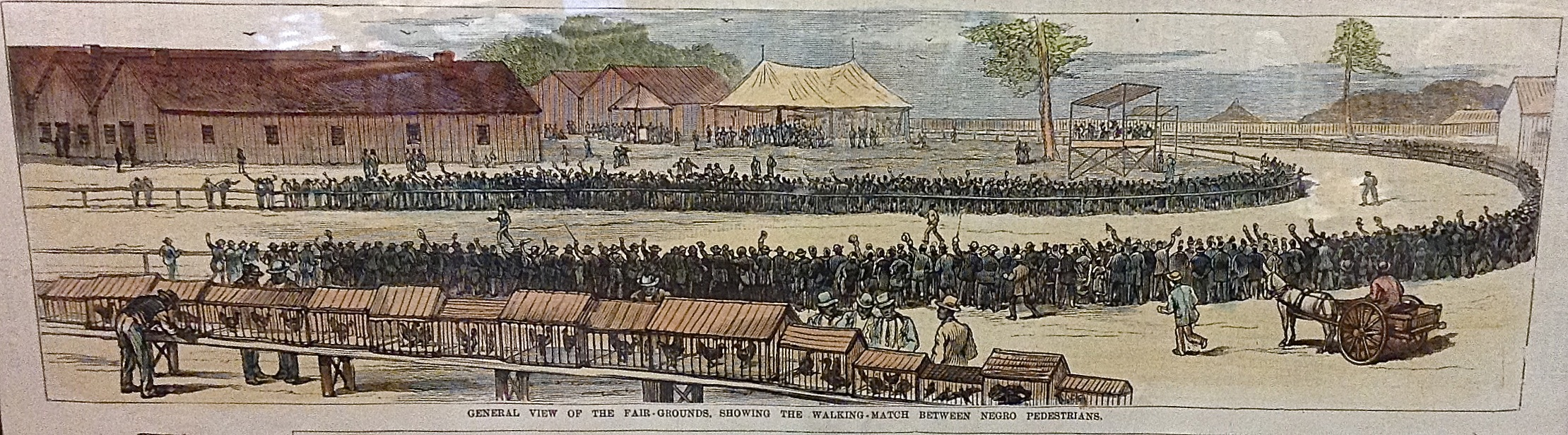 Image titled "General view of the fair grounds showing the walking match between Negro pedestrians." First Grand Fair of the North Carolina Industrial Association, Held at Raleigh, November 17th, 18th, 19th and 20th. From sketches by Joseph Becker. Frank Leslie's Illustrated Newspaper, December 6, 1879. Pedestrianism was a 19th-century form of competitive walking. Photo taken at Olivia Raney Local History Library, Raleigh, North Carolina This image was uploaded as part of Wikipedia Summer of Monuments. English | +/−